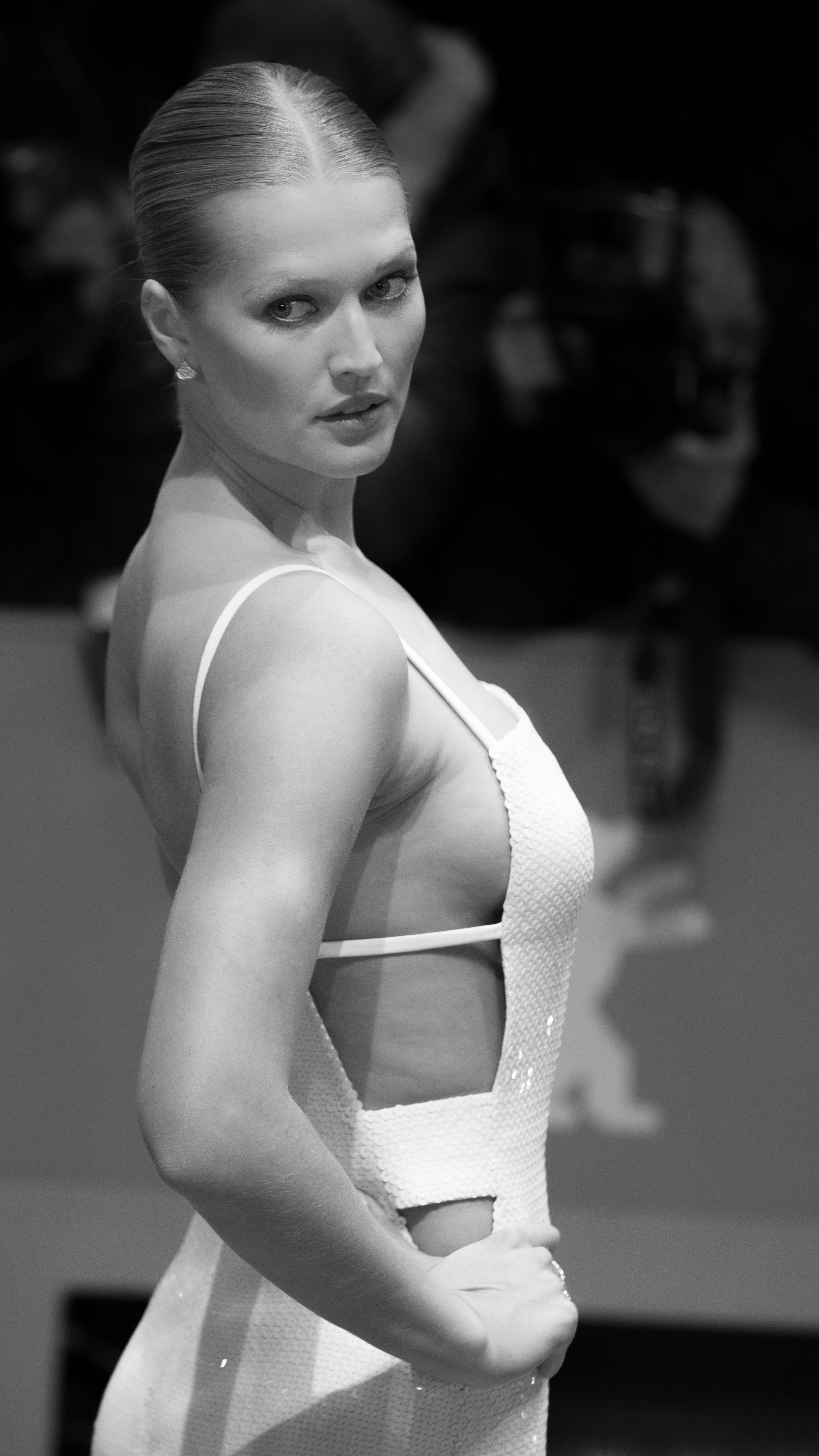 Toni Garrn at the opening ceremenony of the Berlinale 2018